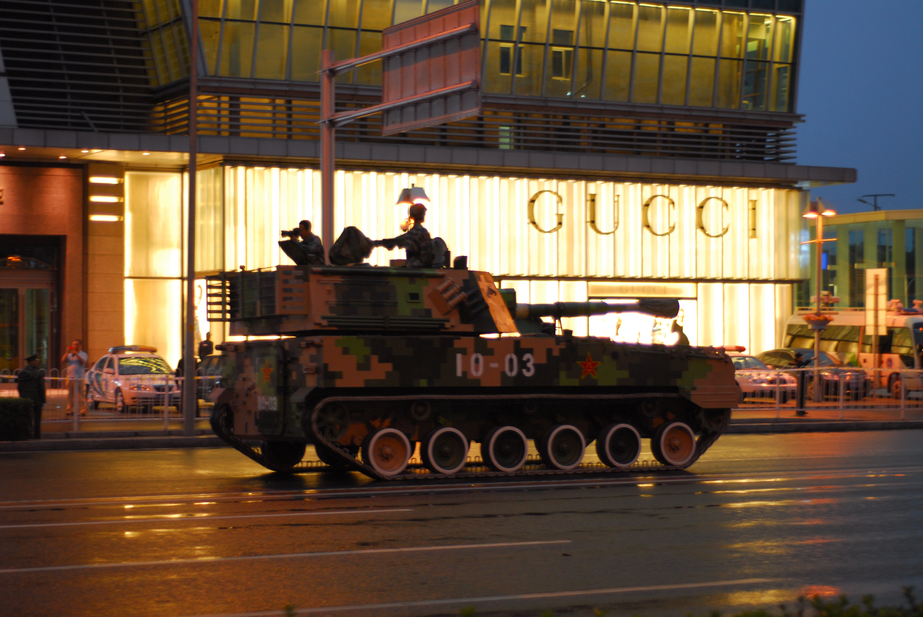 Training exercise for the military parade scheduled for October 1 2009, to celebrate China's 60th Anniversary. The PLZ-05 122mm self-propelled howitzer rolled down Xidawang Lu in Chaoyang district in the east side of central Beijing past the luxurious shopping centre Shin Kong Place.